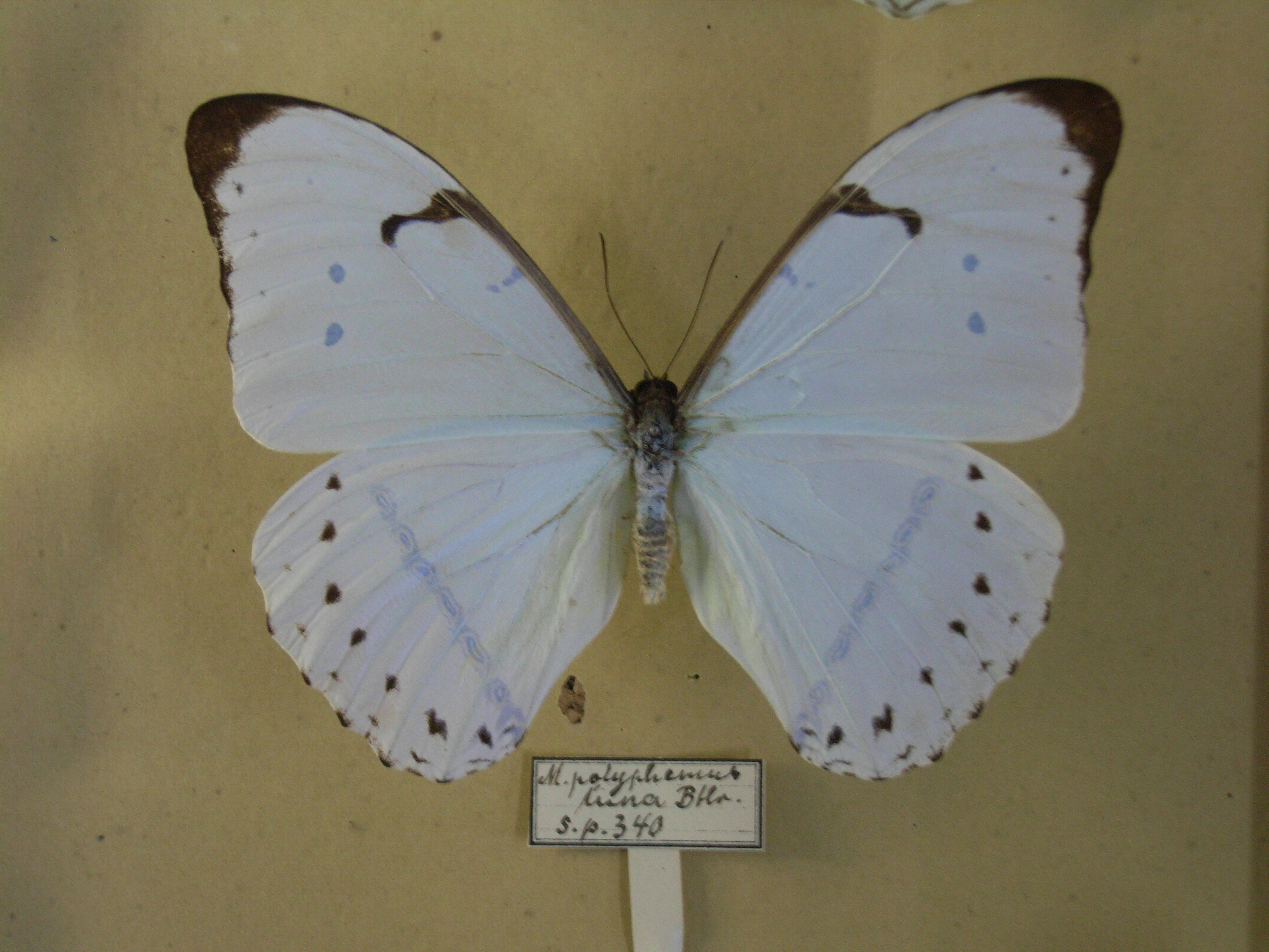 Morpho polyphemus luna Ex Coll. Museum Wiesenbad